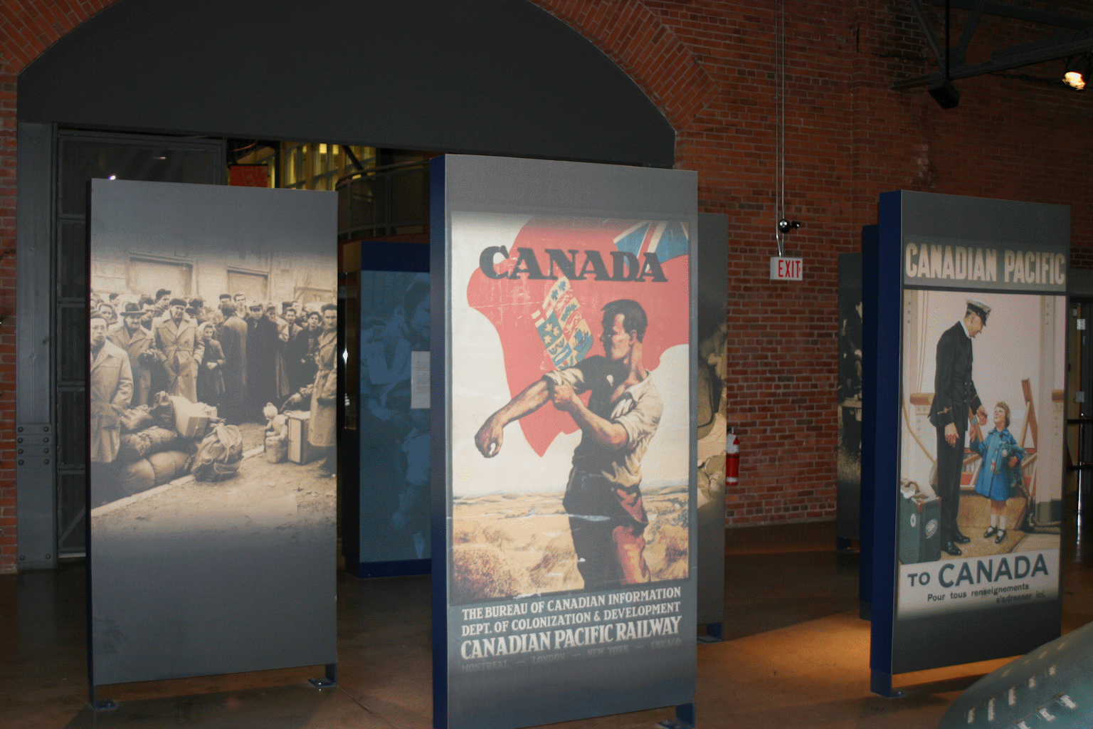 Interior of Pier 21